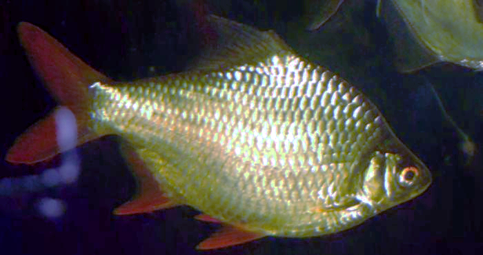 A photograph of the Tinfoil Barb (Barbonymus schwanenfeldii).